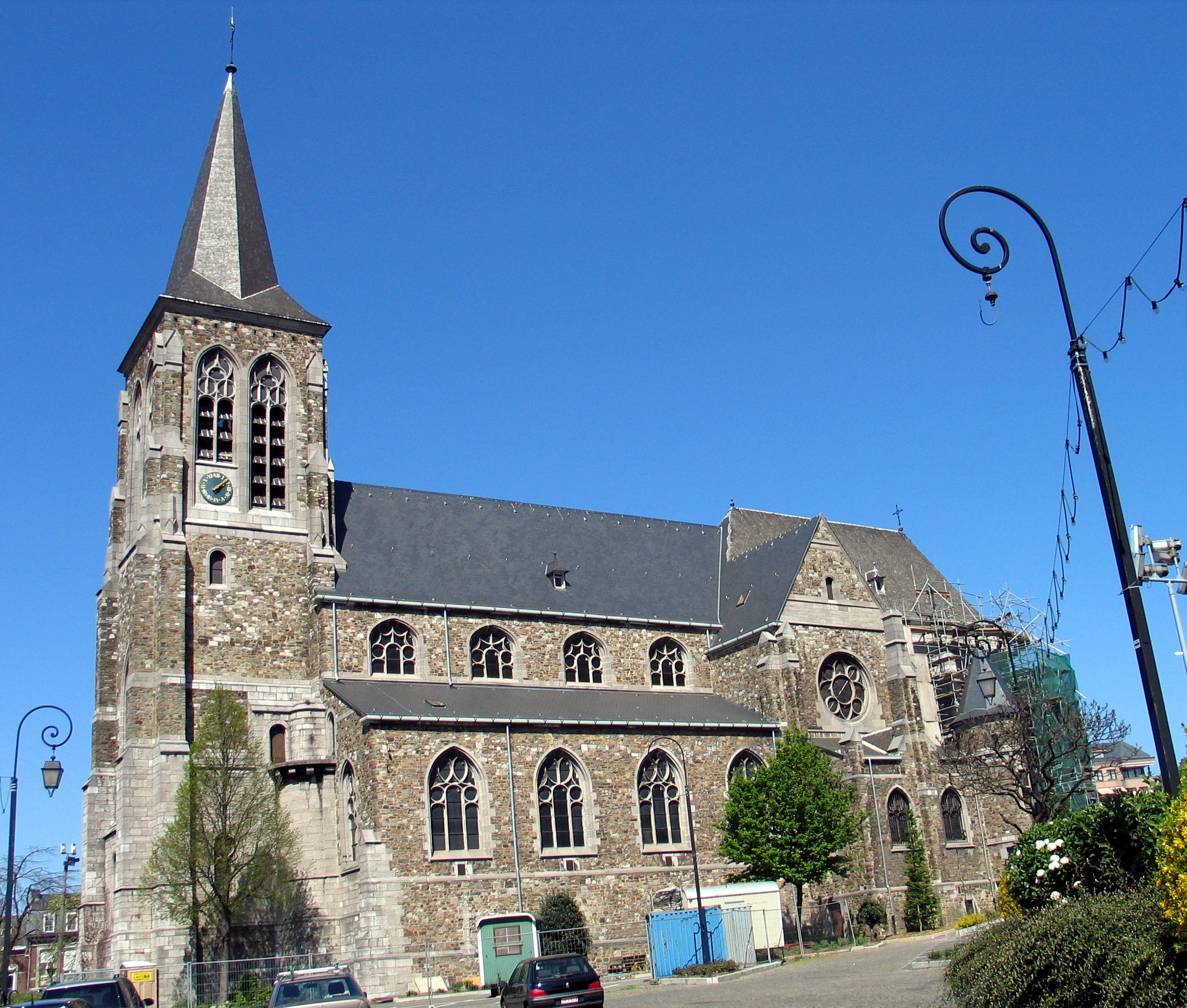 Church of Visé (Wezet) in Belgium.